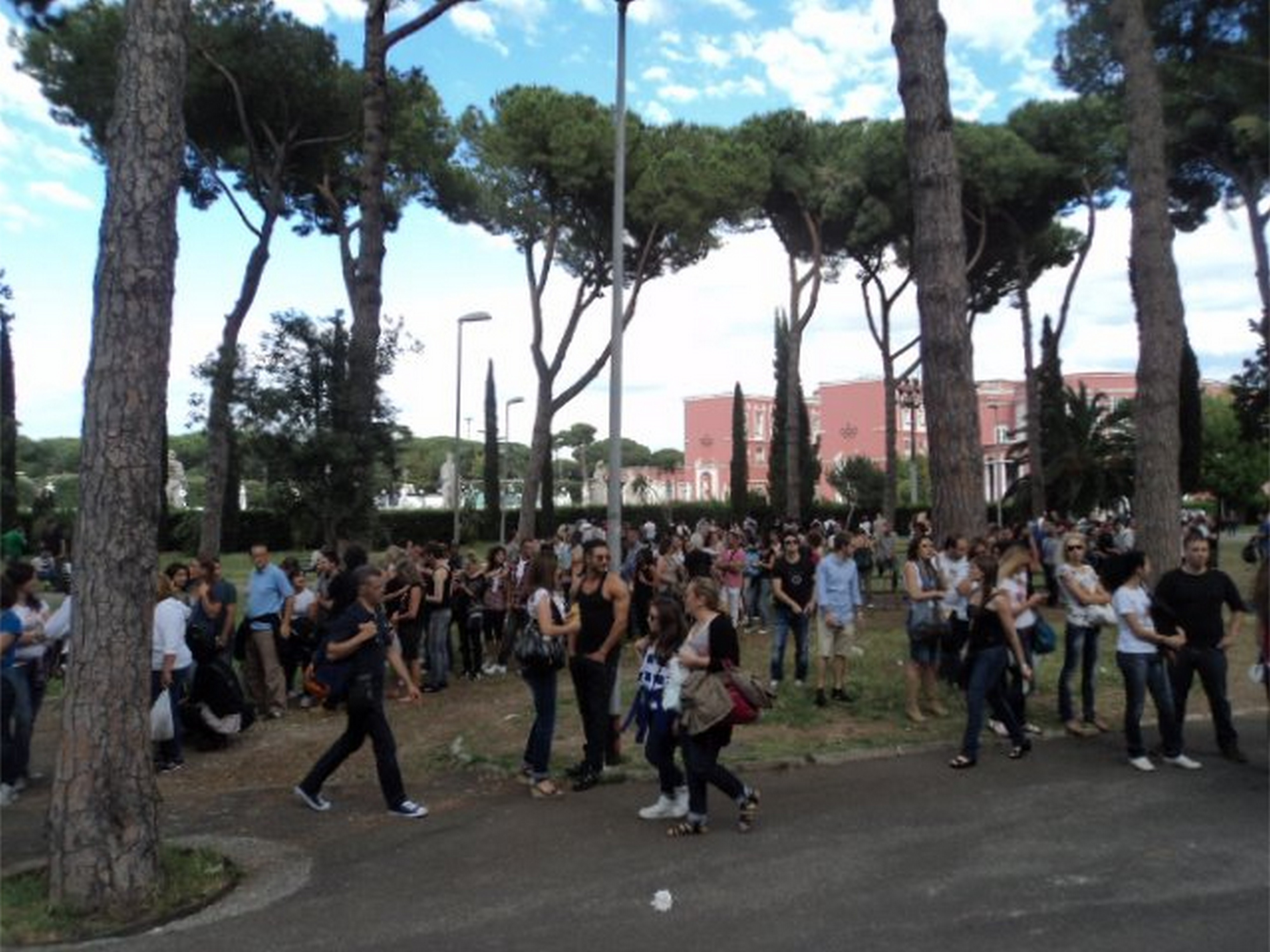 Madonna Live@Olympic Stadium in Rome - MDNA Tour